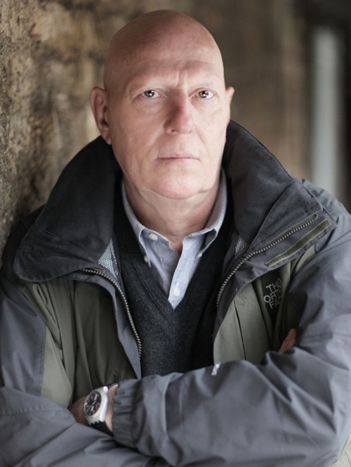 Ulf Schiewe